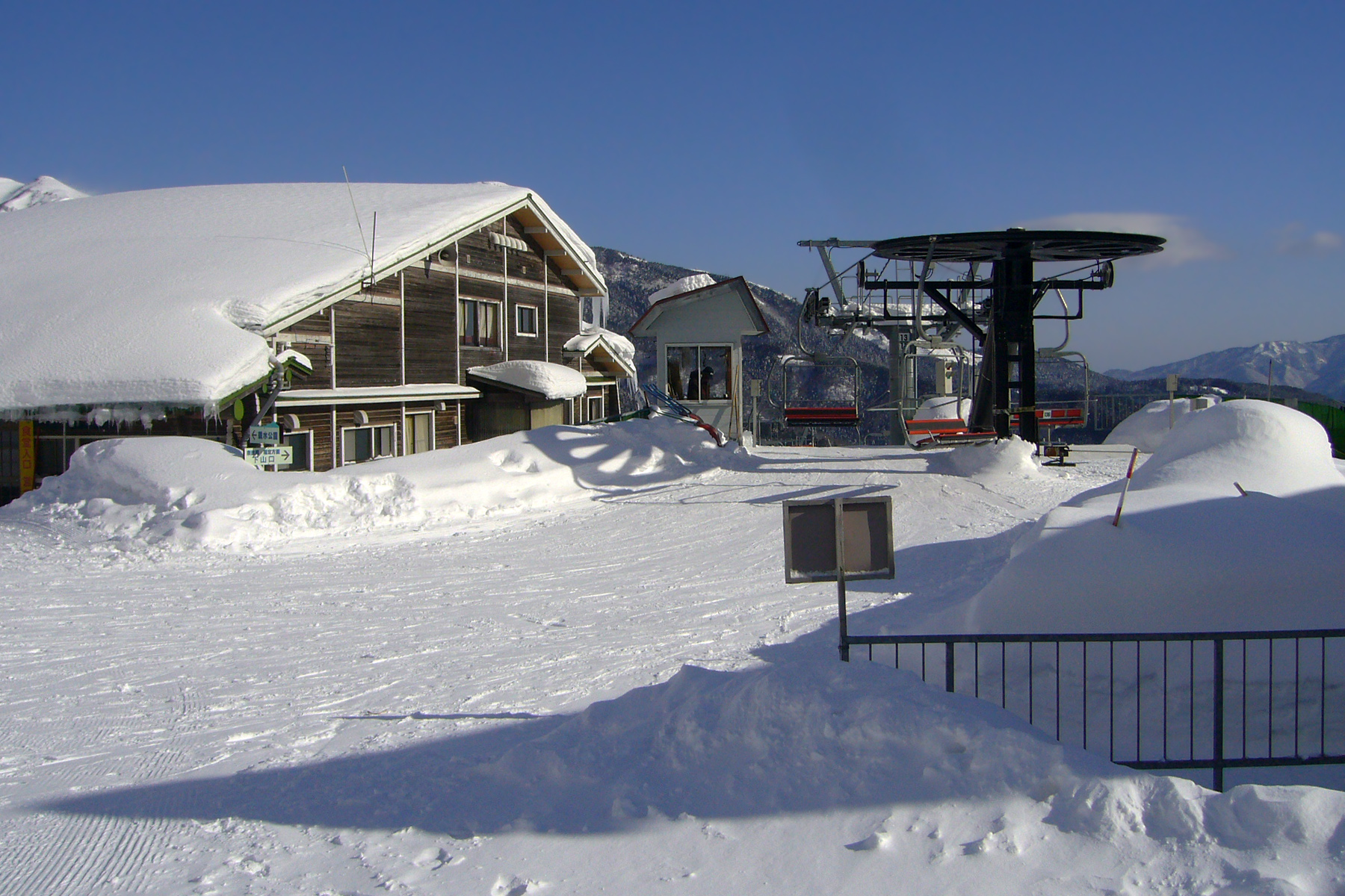 Mt.Hyonosen, Hyonosen International Ski resort in Yabu, Hyogo, Japan